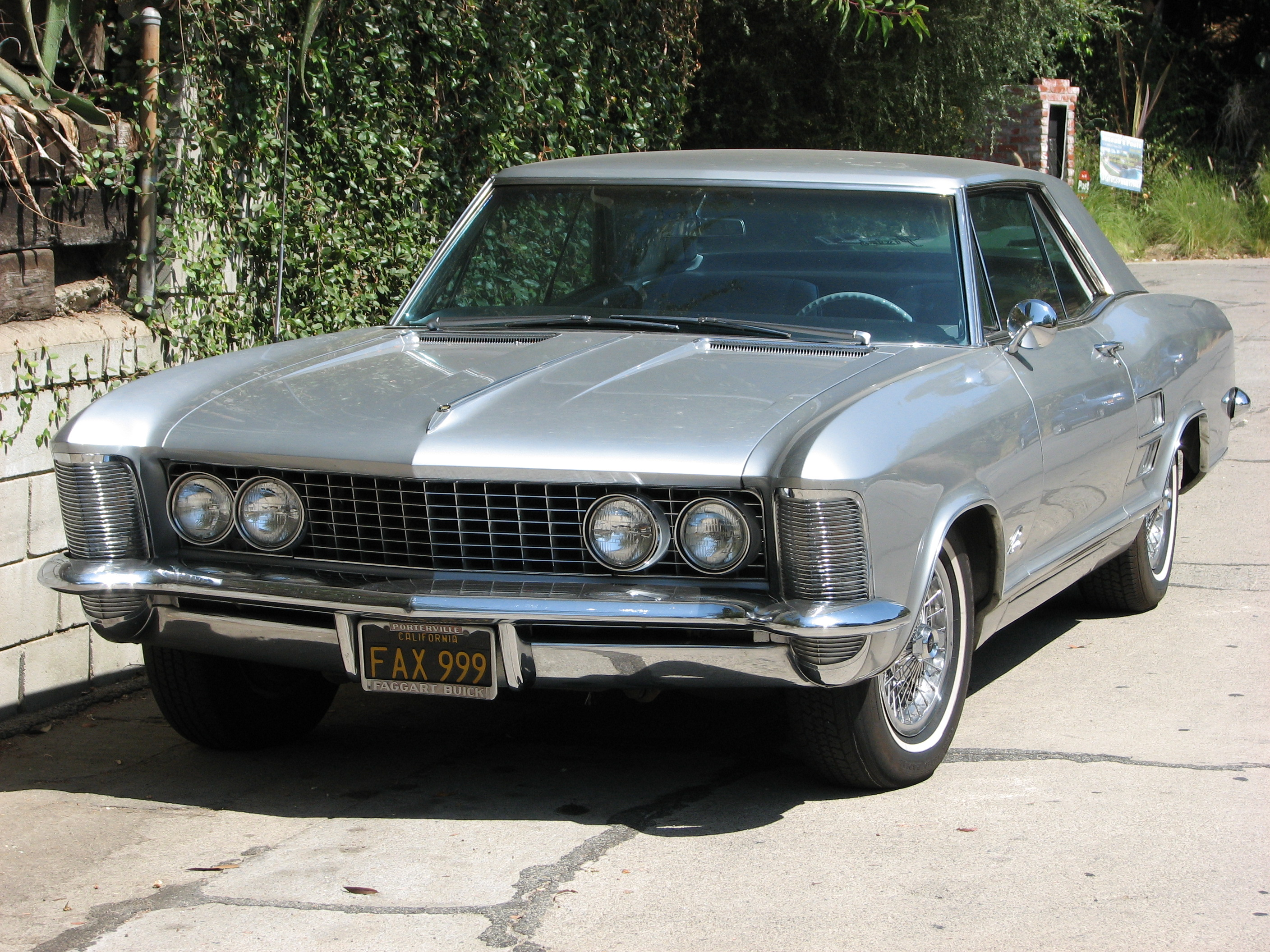 BUICK RIVIERA IN HOLLYWOOD VINTAGE CARS - (BLACK CALIFORNIA LICENSE PLATE) BUICK